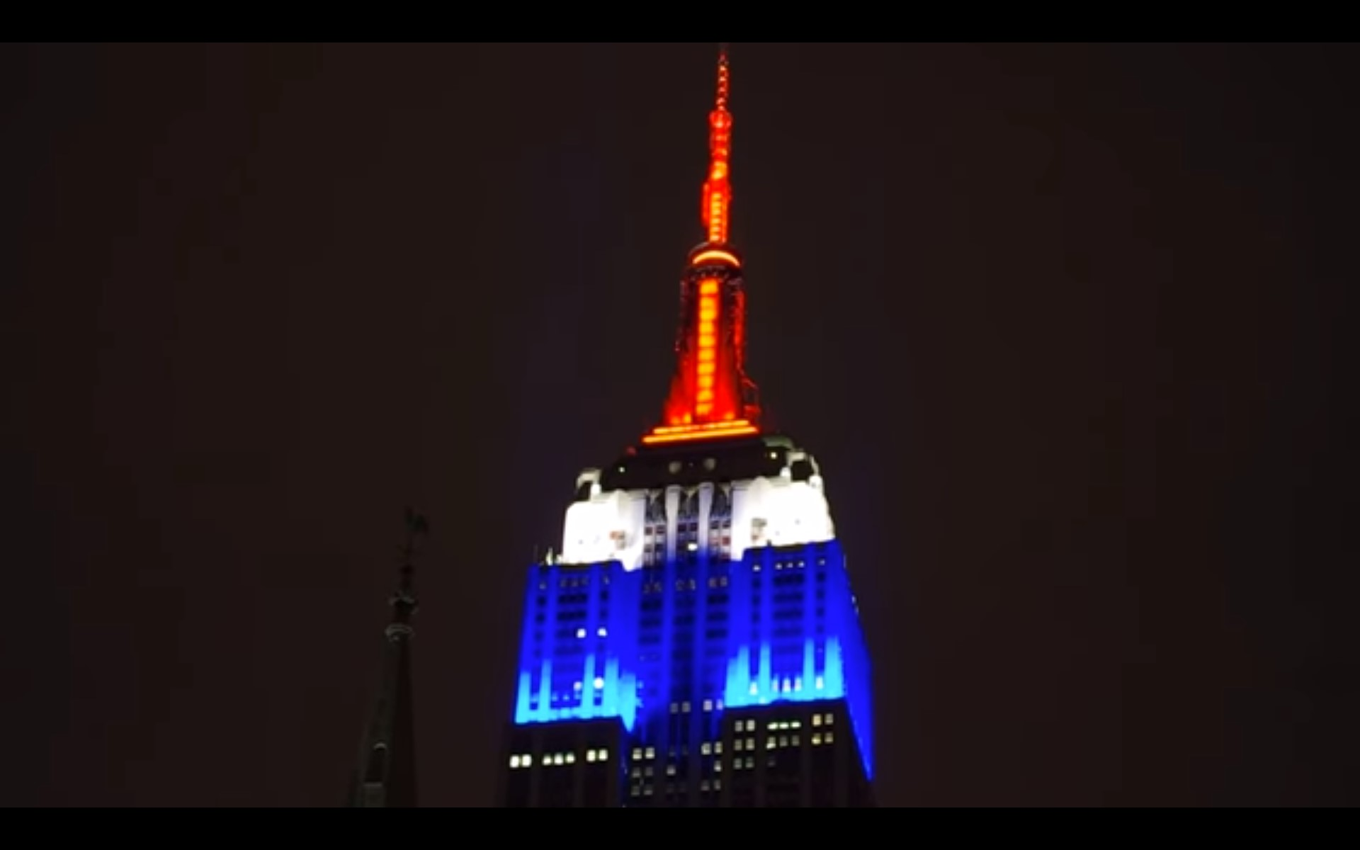 The Empire State Building illuminated in French tricolours to show solidarity with France